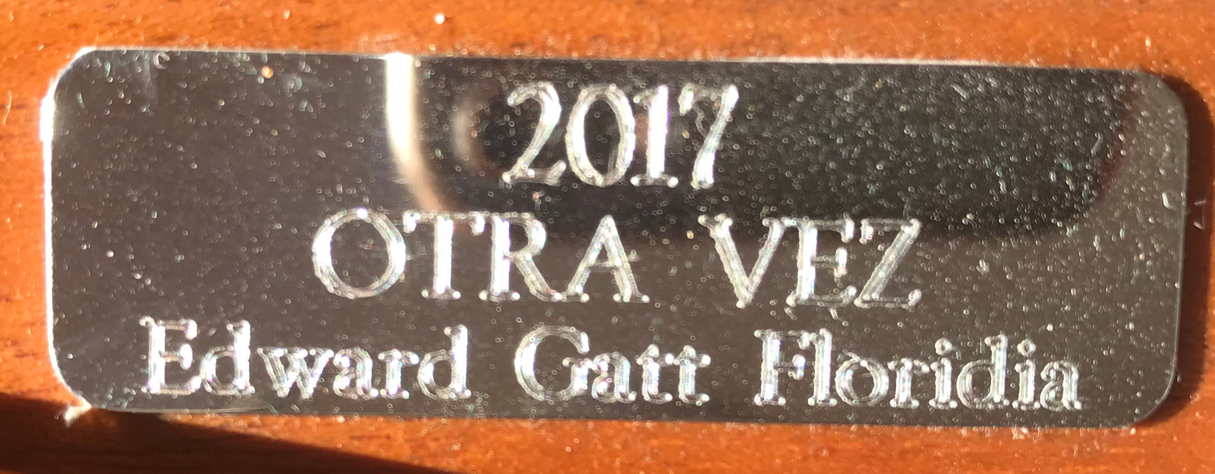 Patch on the trophy